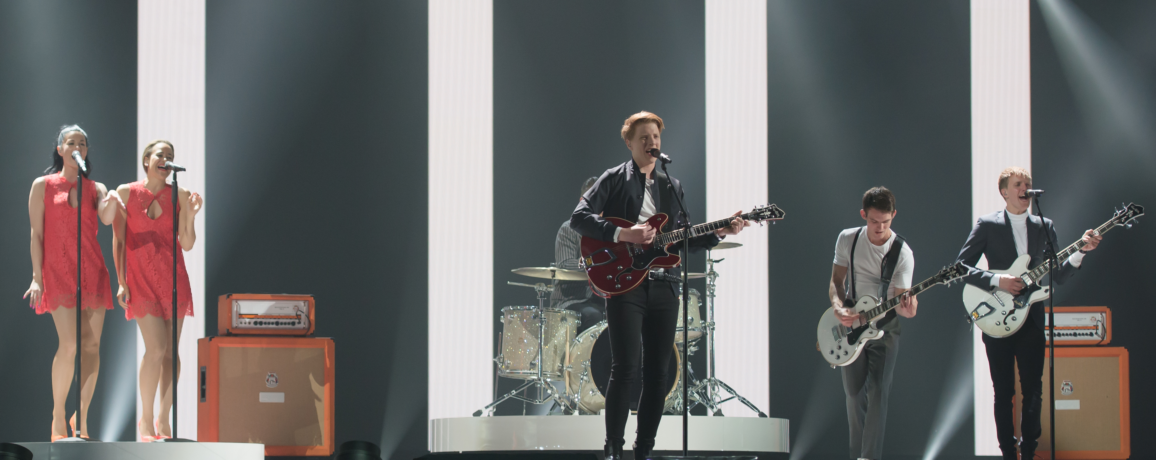 Eurovision Song Contest Vienna 2015: Anti Social Media, Denmark